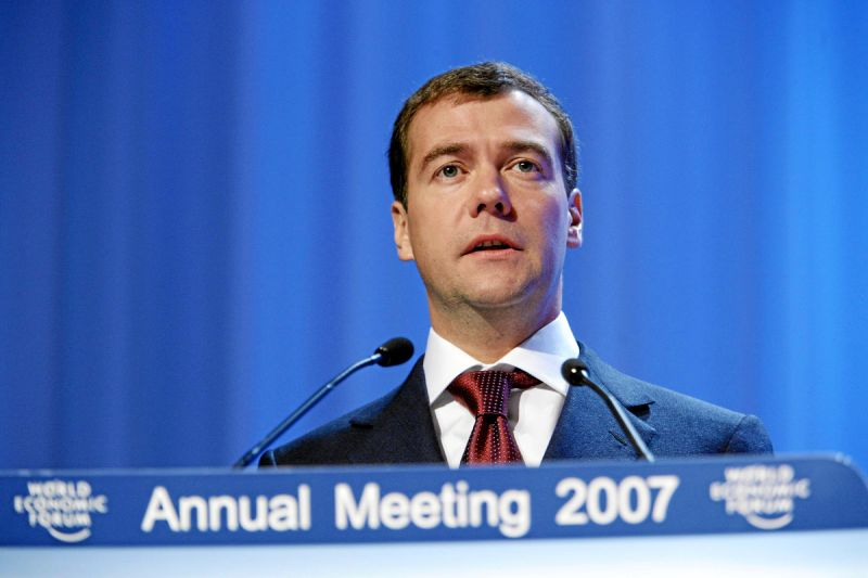 Dmitry Medvedev at the WEF's meeting at Davos in 2007